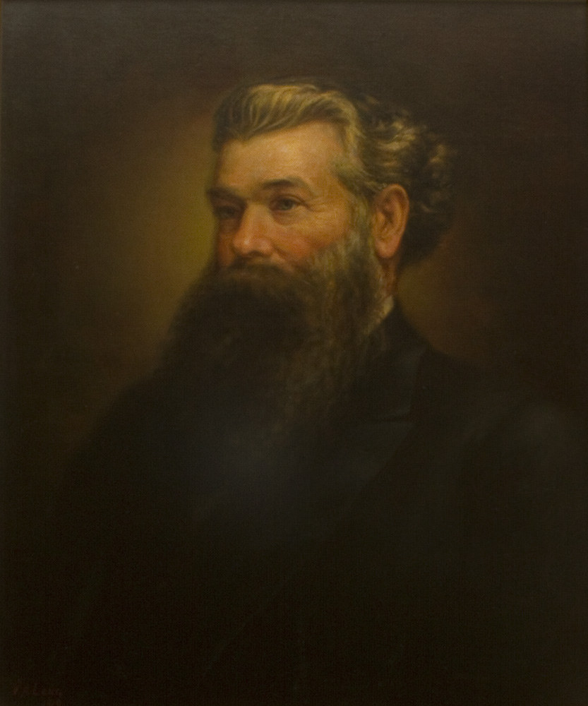 John McKellar (1833-1900) served as the first Mayor of Fort William, from 1892 to 1899. He had also been active in the governments of Shuniah and Neebing since 1873, and was highly influential in the early development of the town. For more information see the Past Mayors and Councils exhibit, This painting is in the public domain as all copyright has expired.